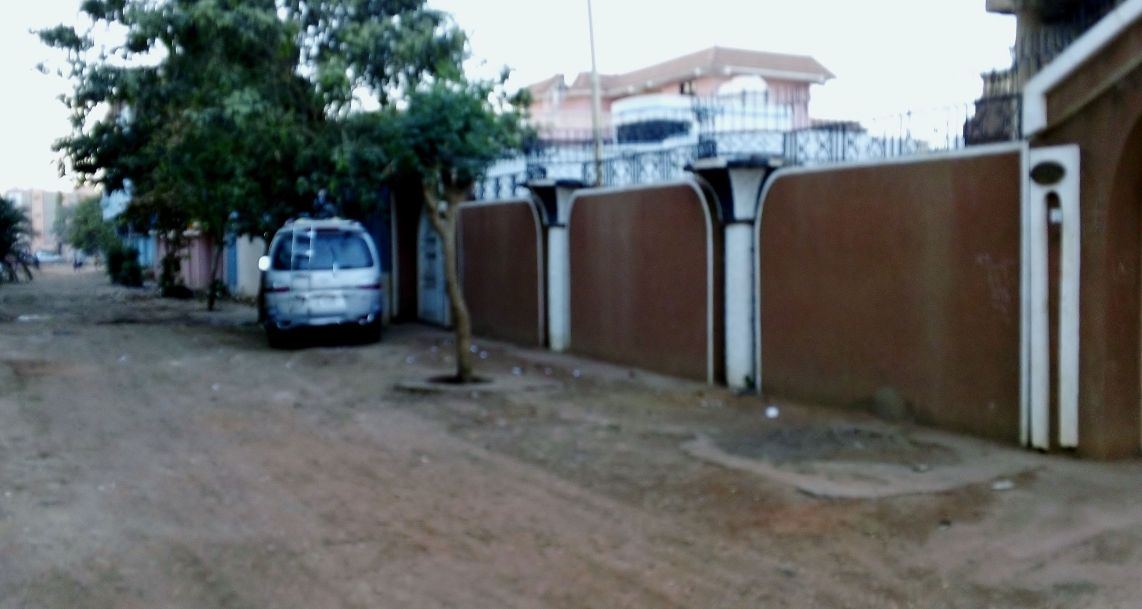 حي المهندسين-أم درمان-السودان